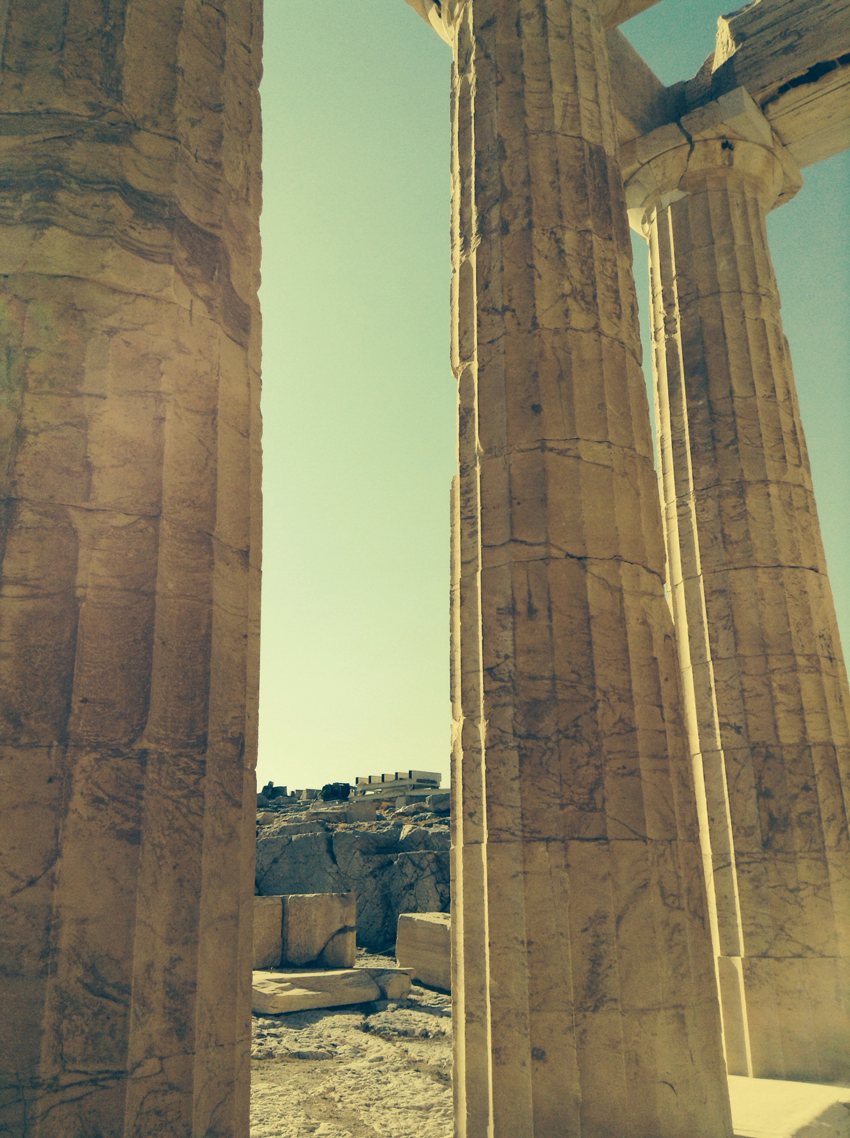 Acropolis in Athens, Greece.